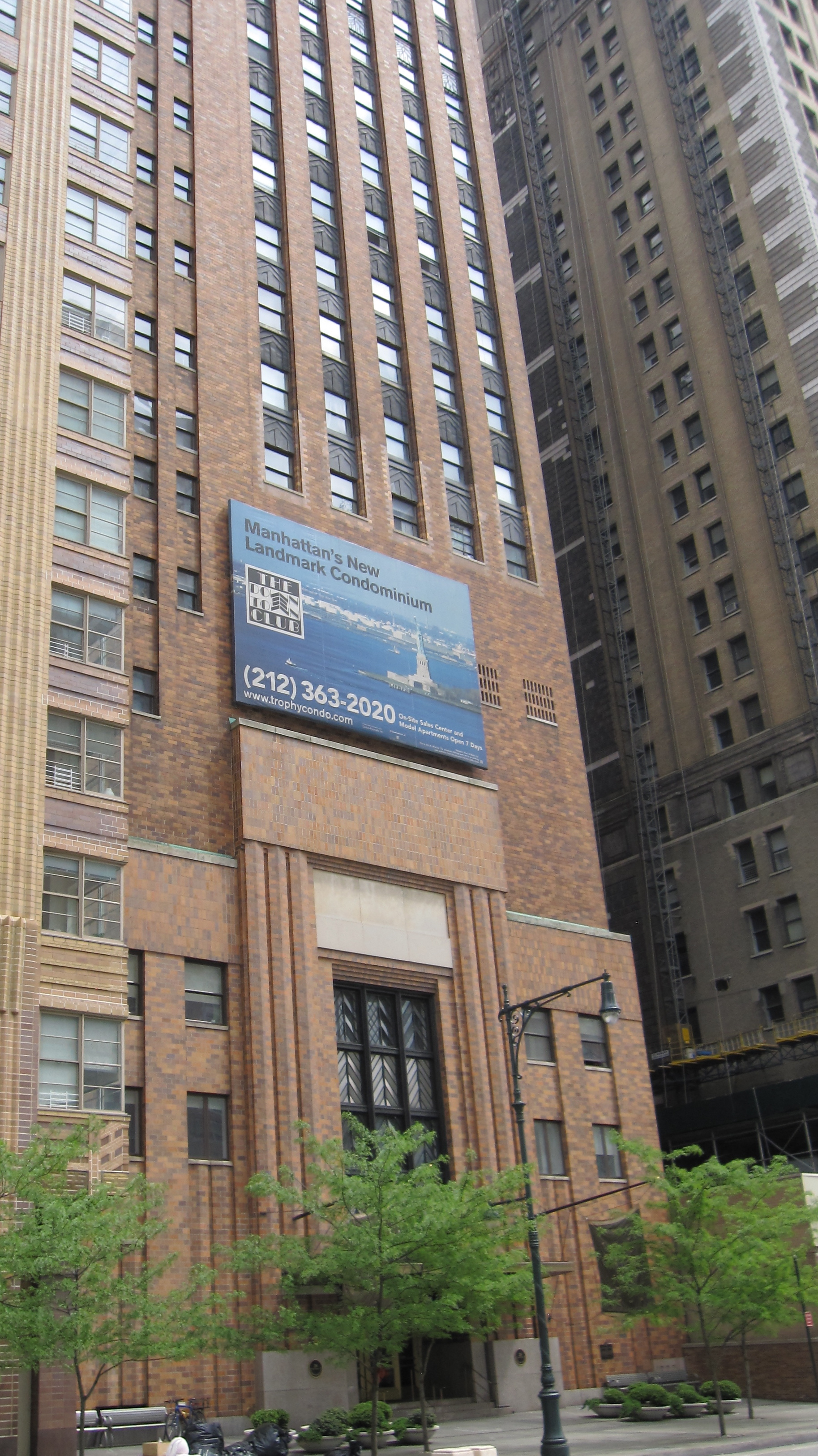 20 West Street in New York.